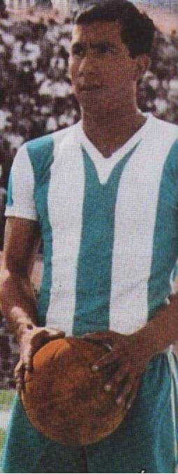 Carlos Videla. Player of Racing de Córdoba in 1966.